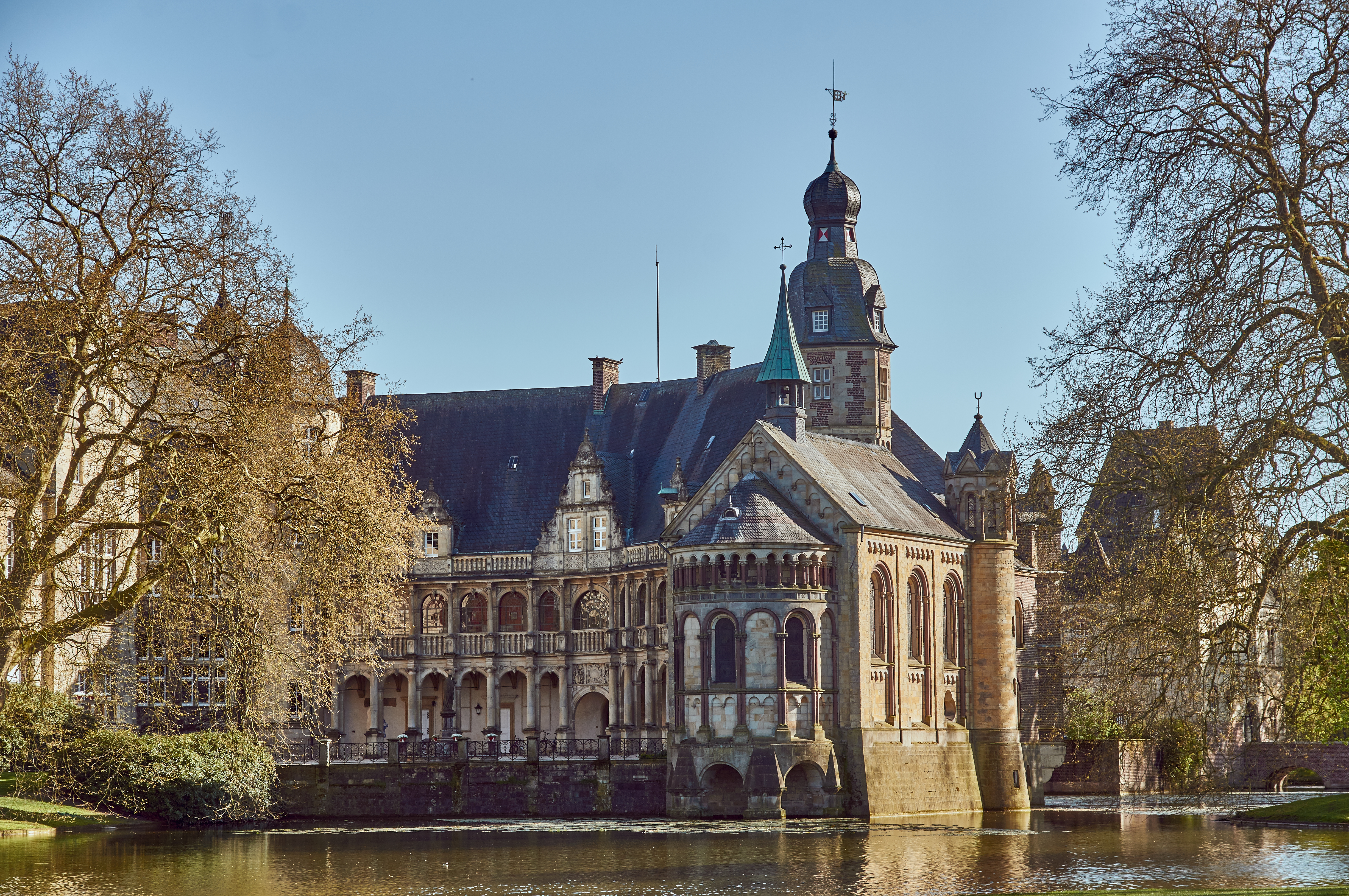 Darfeld Castle in Rosendahl, district of Coesfeld, North Rhine-Westphalia, Germany. This is a photograph of an architectural monument.